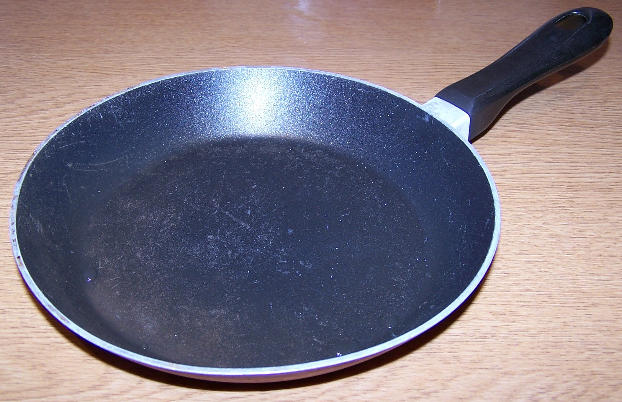 A red frying pan with a black handle.